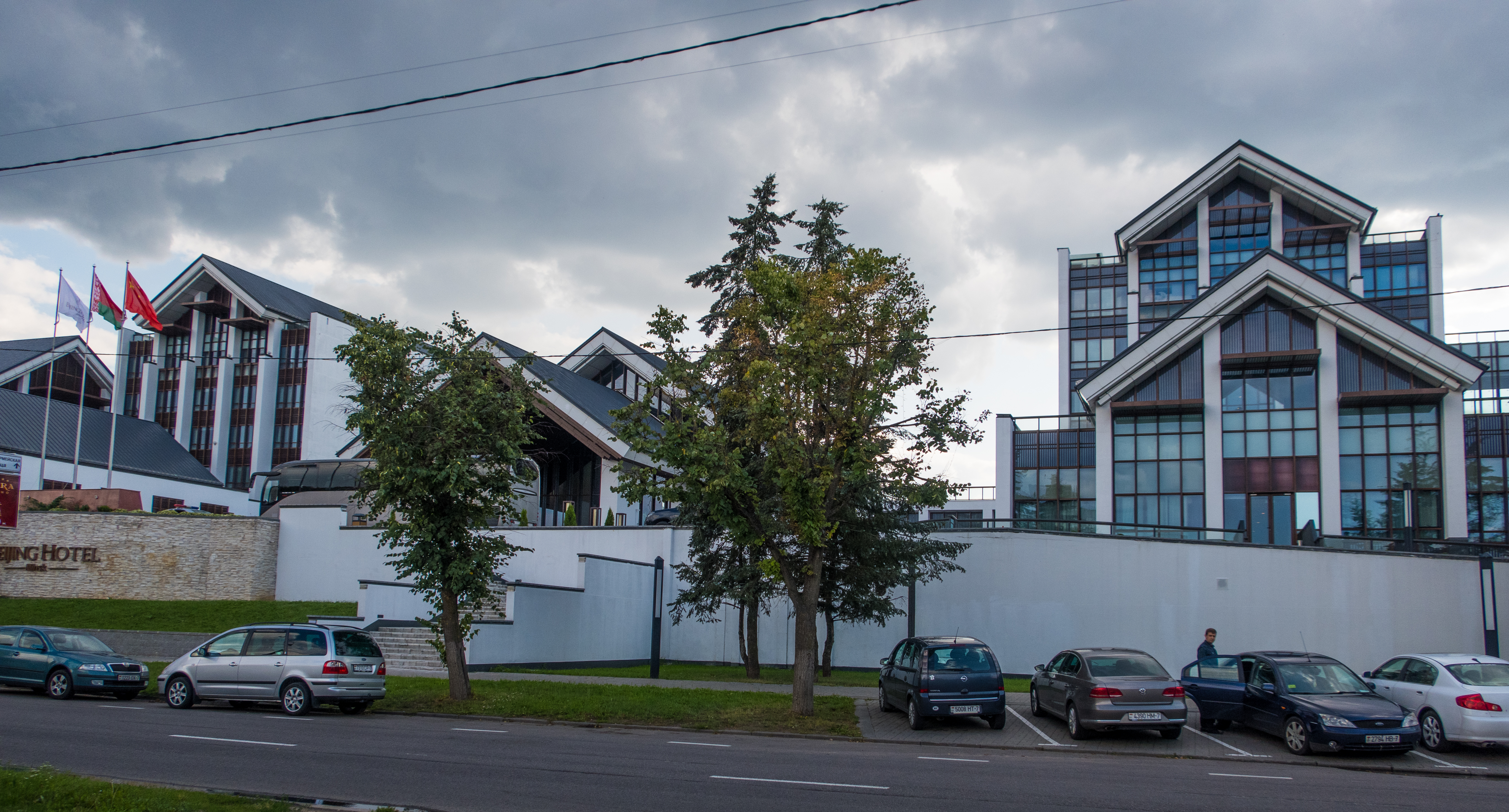 Čyrvonaarmejskaja street. Beijing hotel. Minsk, Belarus